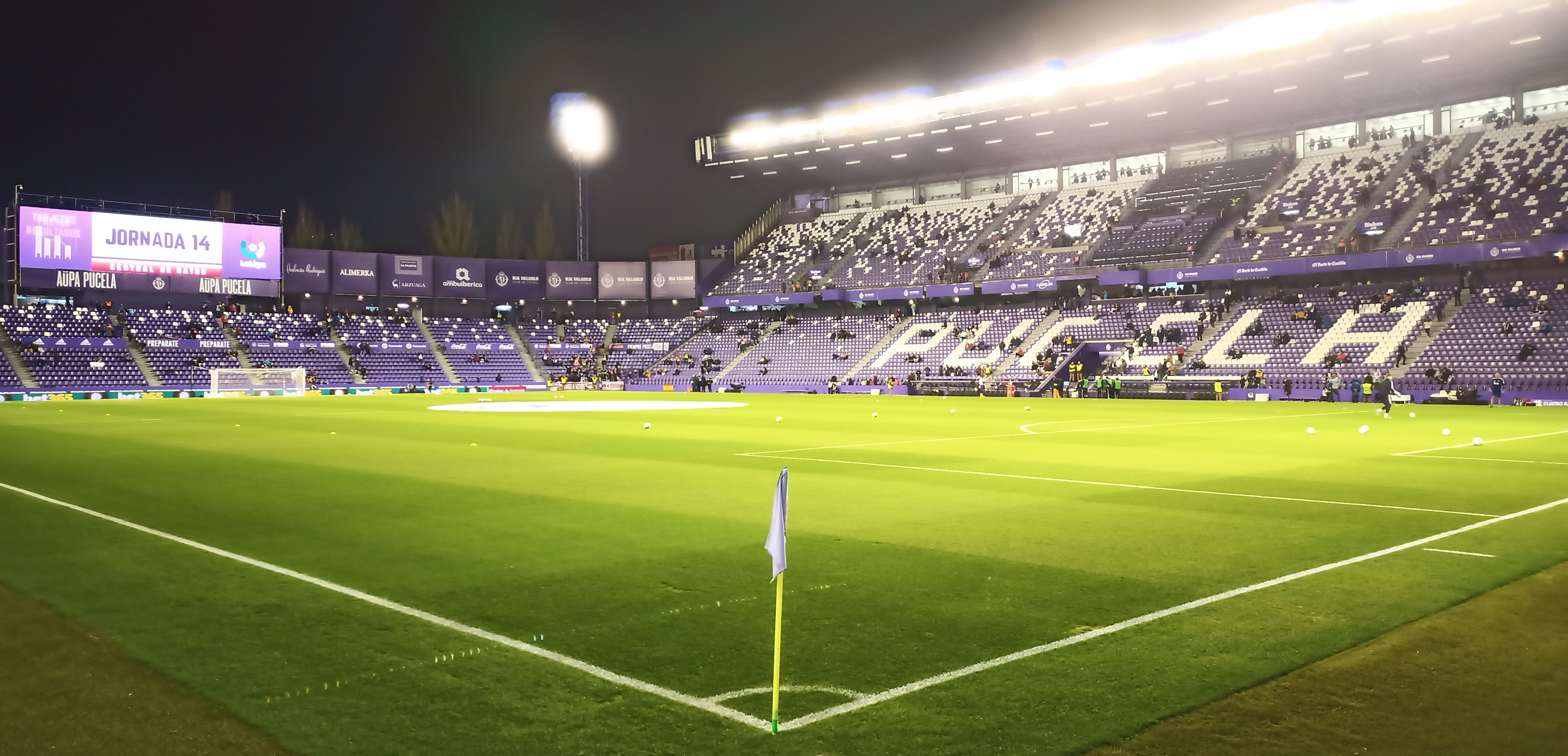 José Zorrilla Stadium in Valladolid, 2019. 14th fixture of La Liga 2019-20. Real Valladolid - Sevilla FC